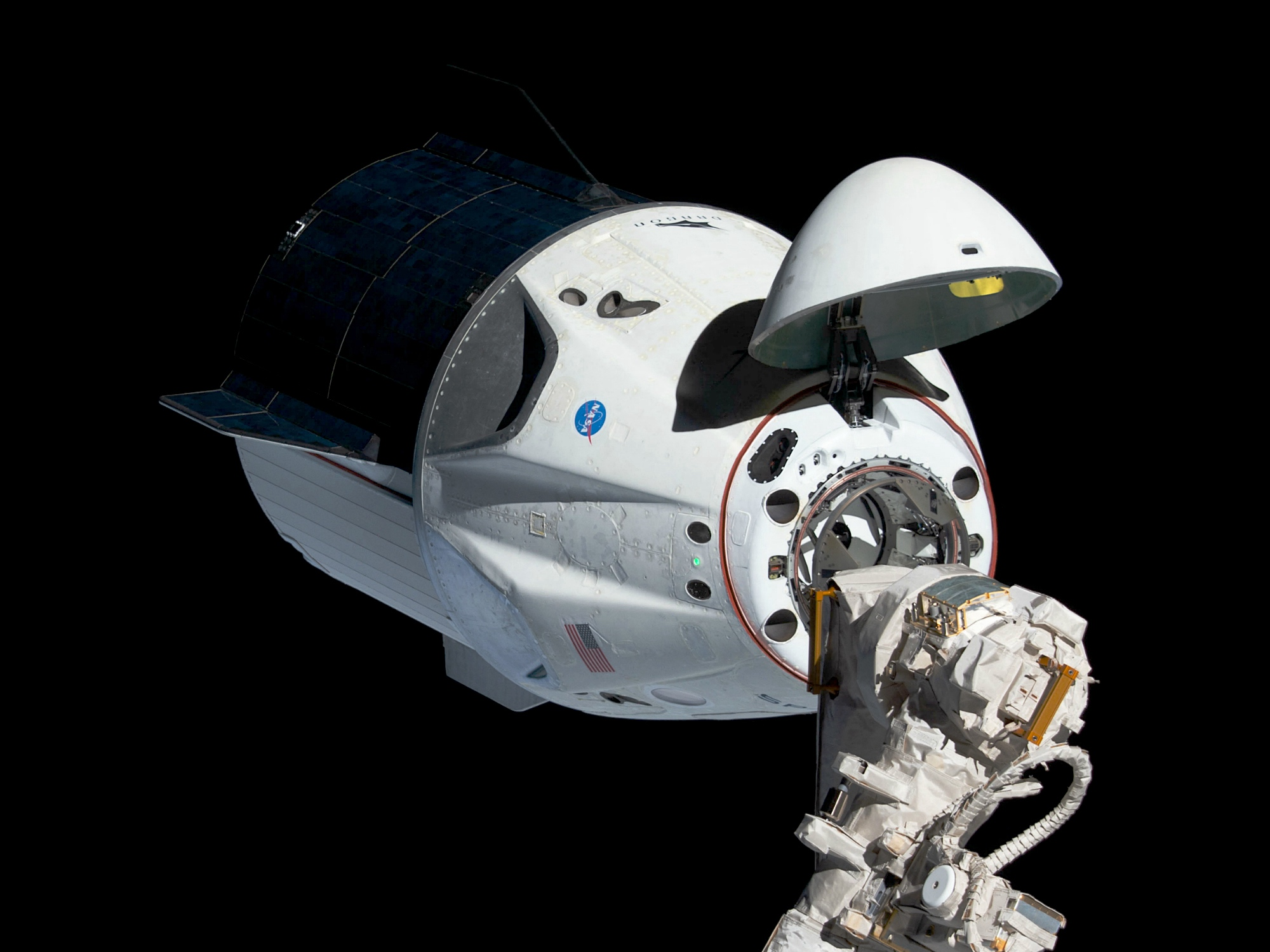 The uncrewed SpaceX Crew Dragon spacecraft is the first Commercial Crew vehicle to visit the International Space Station. Here it is pictured with its nose cone open revealing its docking mechanism while approaching the station's Harmony module. The Crew Dragon would automatically dock moments later to the international docking adapter attached to the forward end of Harmony. (cropped and brightened from the original)